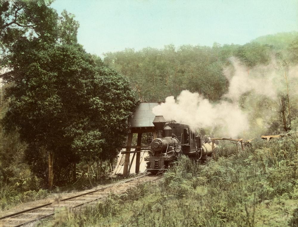 Water tanks for the steam locomotive, Canungra. Locomotive with full head of steam passing the water tanks on the Canungra Tramway, part of the Canungra Sawmills. This photograph is from an album entitled Canungra Illustrated.